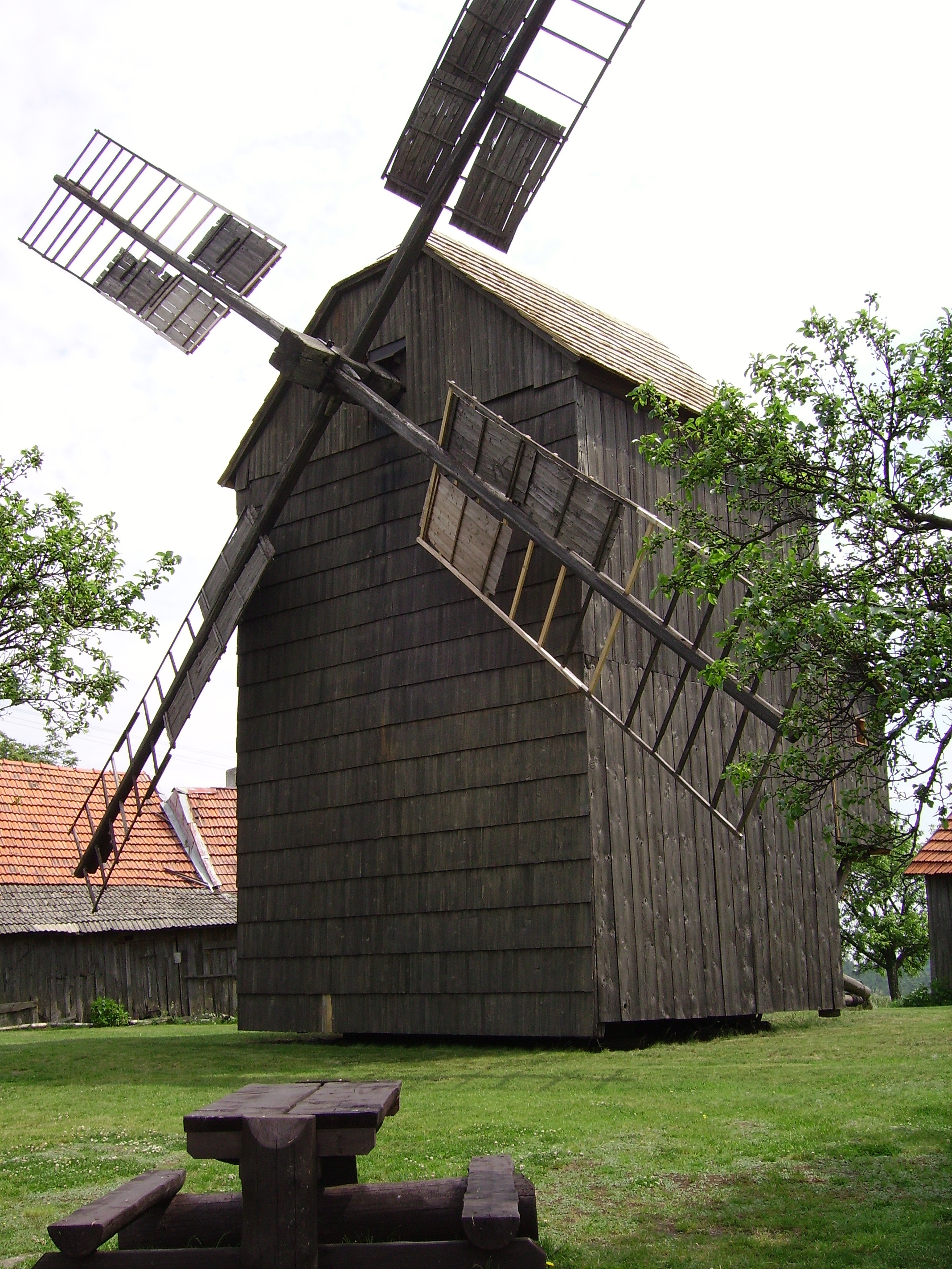 Windmill_Partutovice04.JPG